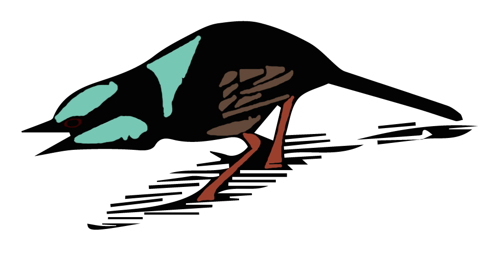 Redrawn from Rowley, Ian. (1962). ""Rodent-run" distraction display by a passerine, the superb blue wren Malurus cyaneus (L.)". Behaviour 19 (1–2): 170–176.